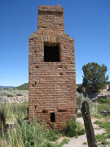 Source: Flickr user Ricketyus